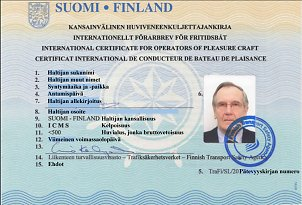 Specimen of an International Certificate for Operators of Pleasure Craft issued in Finland by Finnish Transport Safety Agency TraFi in accordance with Resolution No. 40 of the UN/ECE Working Party on Inland Water Transport.